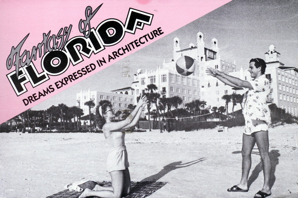 Persistent URL: PC6069 Local call number: PC0021 Title: "Fantasy of Florida - Dreams Expressed in Architecture" Date: 1985 Physical descrip: 1 postcard - col. - 9 x 14 cm. Series Title: Repository: 500 S. Bronough St., Tallahassee, FL, 32399-0250 USA, Contact: 850.245.6700